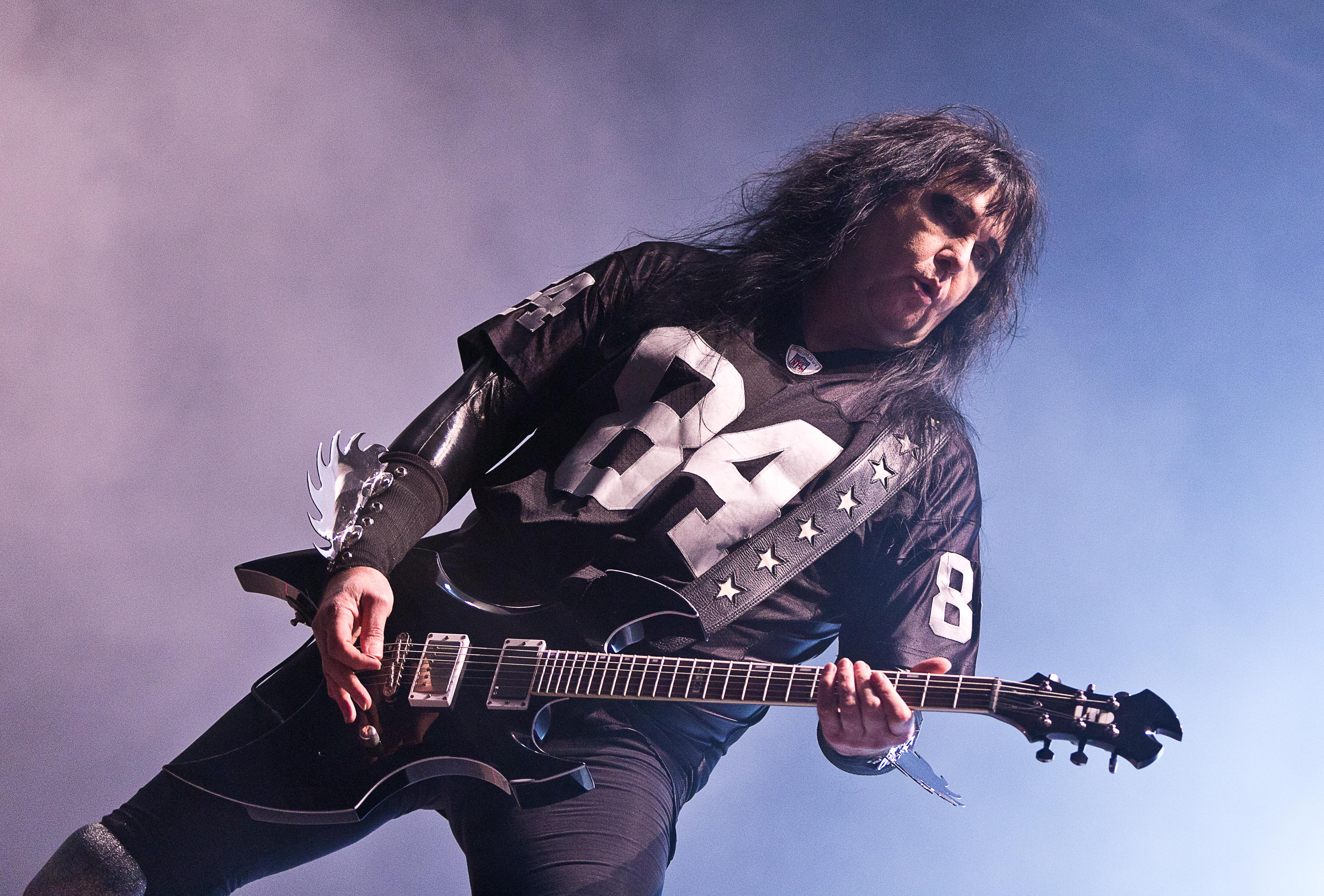 The American heavy metal band W.A.S.P. at the Rockharz Open Air 2015 in Ballenstedt/Germany.